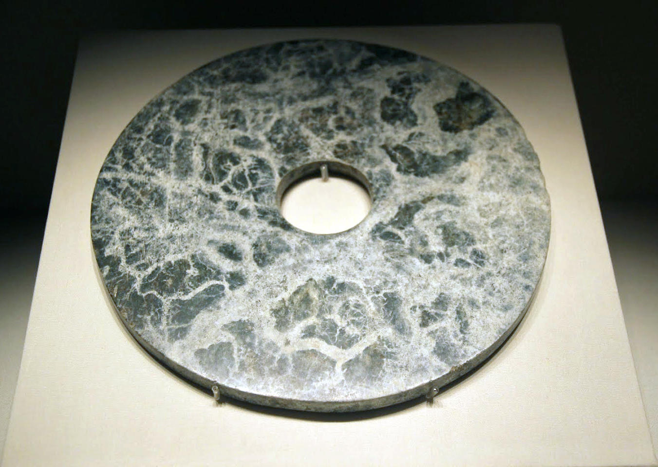 Liangzhu Culture, Neolithic Period (3300 - 2200 BCE). Excavated at Yuhang, Zhejiang Province. Nephrite. Enigmatic object : may symbolize "heaven", such disks were ritual objects. Most such disks have been found in elite tombs, and required much skill and patience to produce; this disk's rough shape suggests it was hastily produced for burial purposes. National Museum of China, Beijing